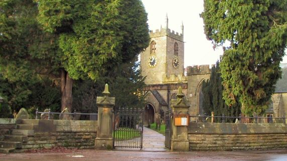 St.Helens Church, Darley Dale, Derbyshire, England. South gate to this ancient church, complete with steps built into the wall for dismounting from your horse. A brief tour of the churchyard revealed references as early as 1714.